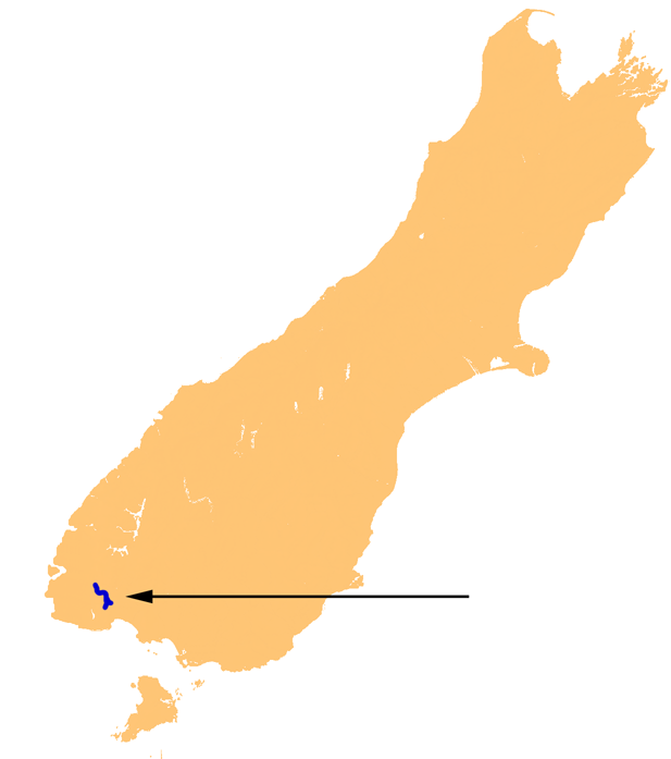 Location map of Lake Hauroko, New Zealand